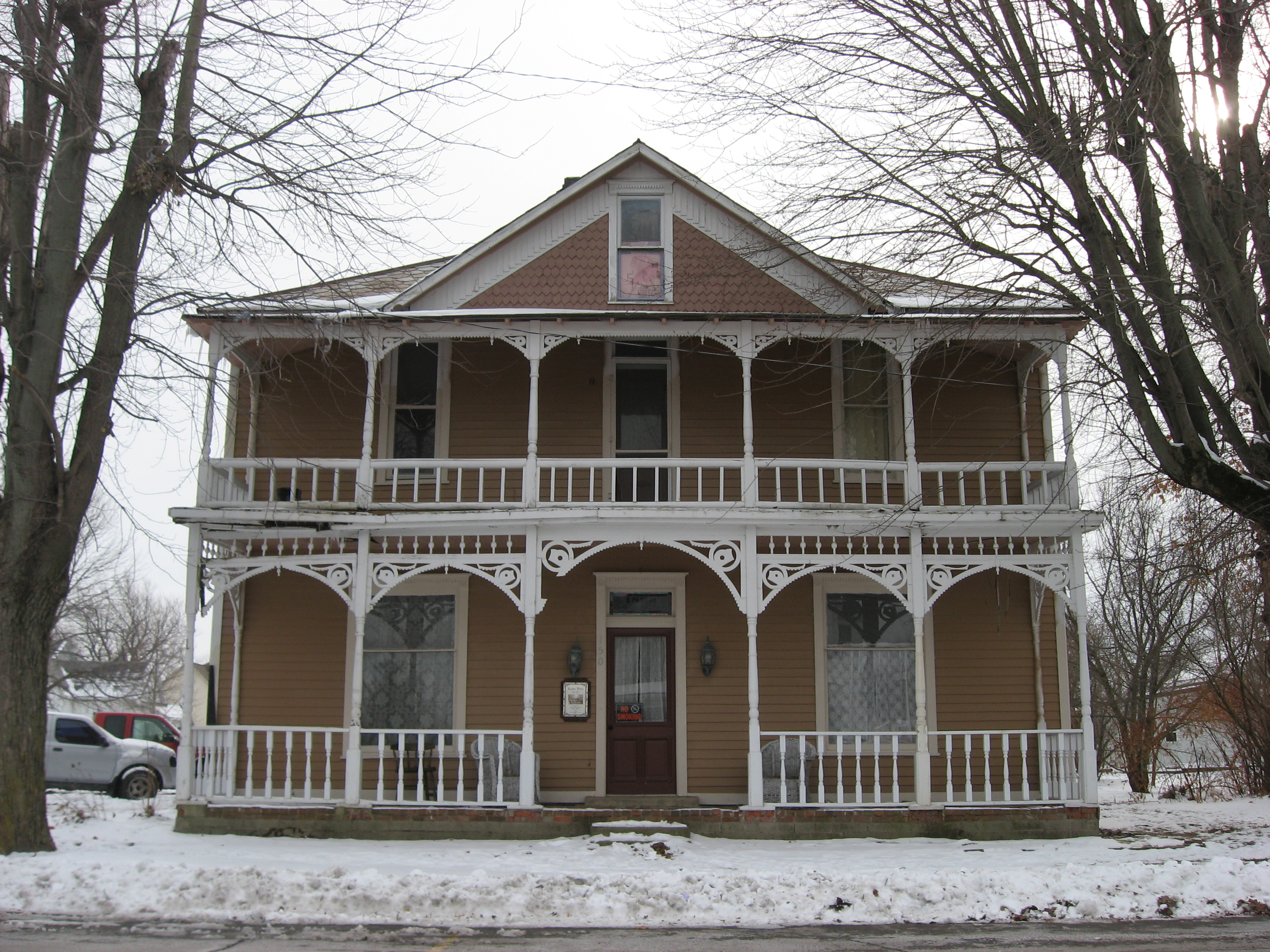 Front of the Roads Hotel, located at 150 E. Main Street in Atlanta, United States. Built in 1893, it is listed on the National Register of Historic Places.